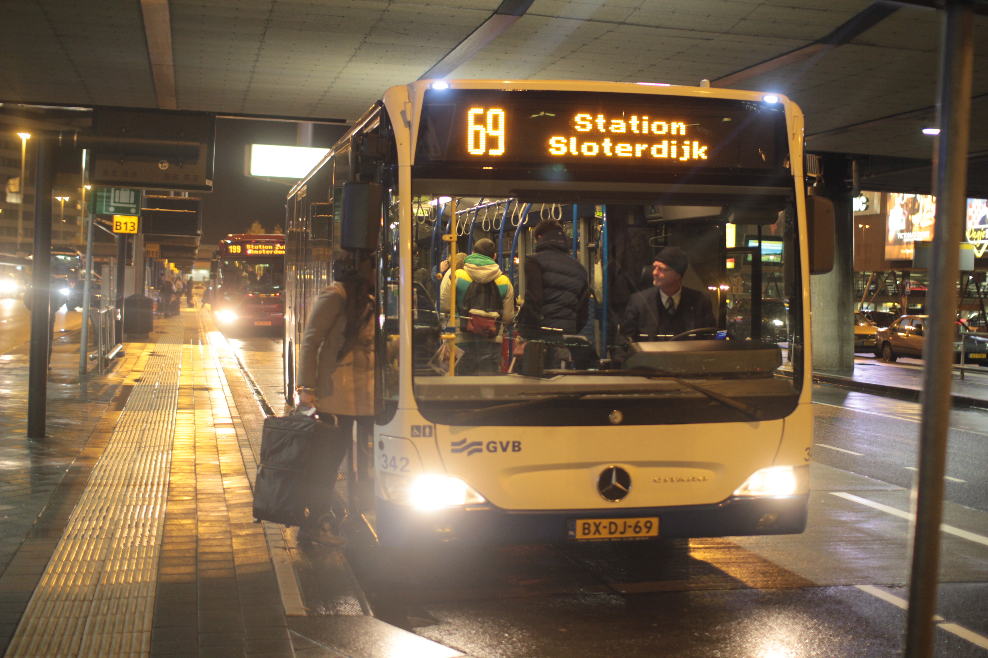 Bus 69 at the Schiphol bus station